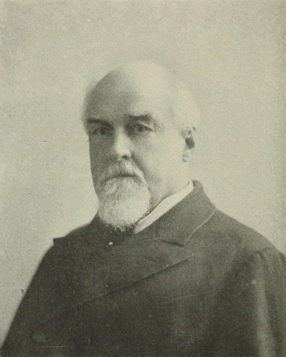 Senator S. D. McEnery